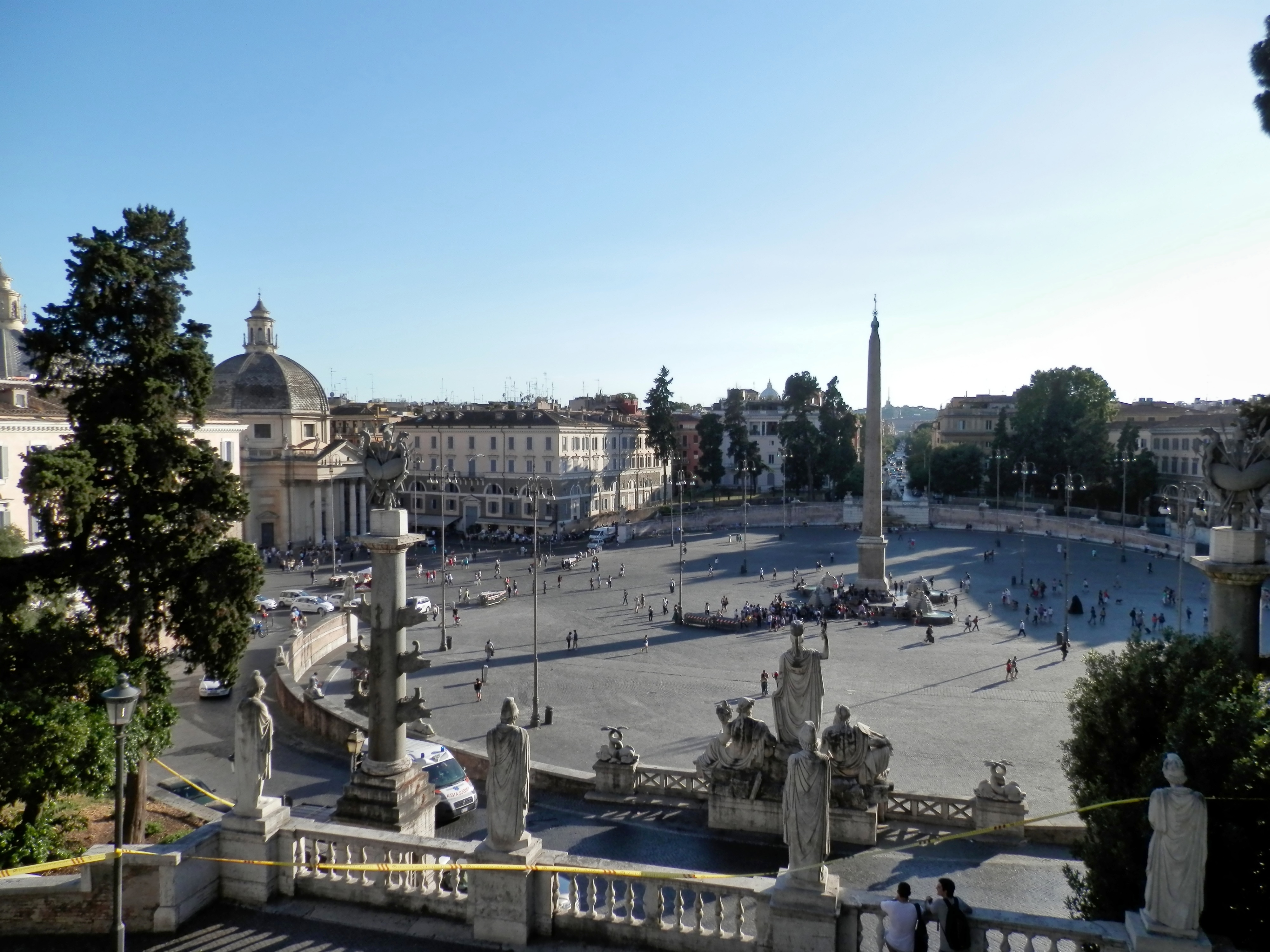 Piazza del Popolo, Rome - general view of this urban square